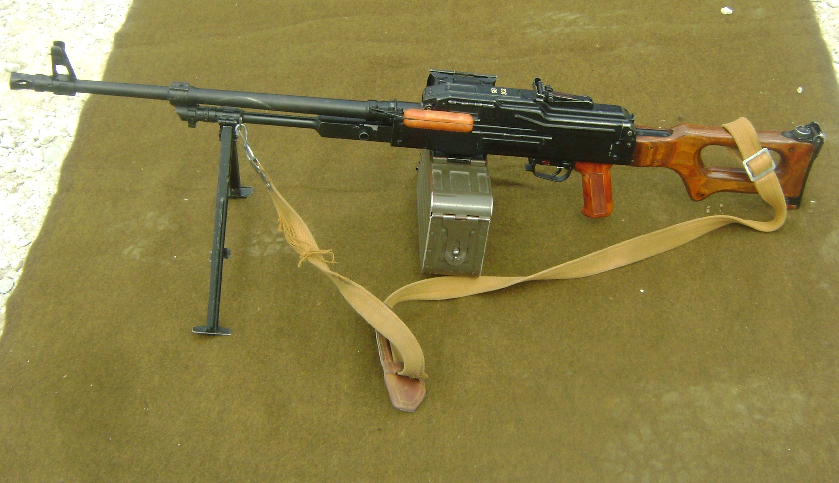 RPD Machine Gun